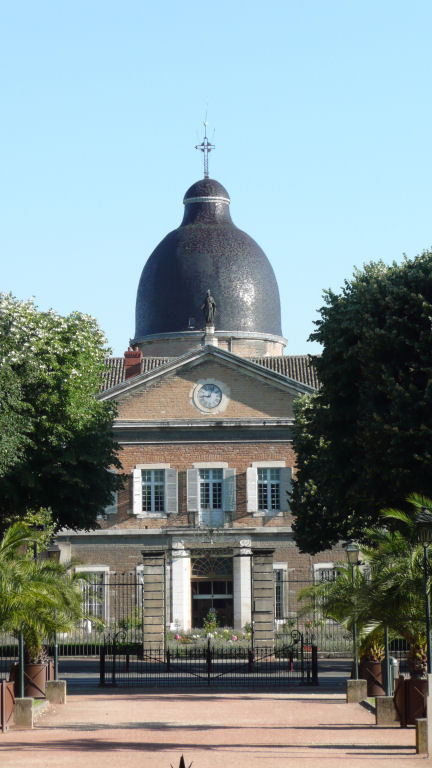 Hotel Dieu (Macon - France)